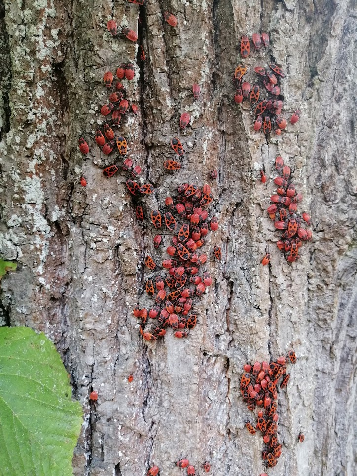 A group of Pyrrhocoridae on a tree, Schwerin 2020